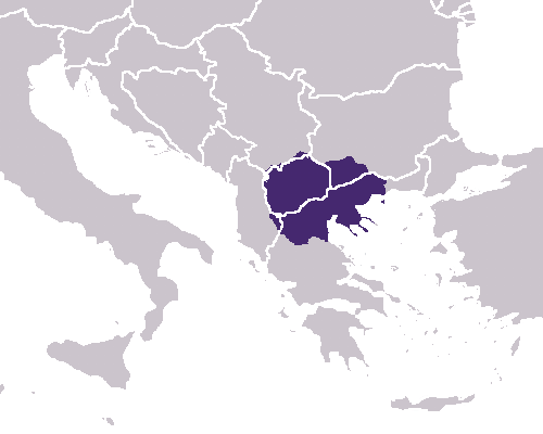 Map showing what is supposed to be defined today as the region of Macedonia. Self made. NikoSilver (T) @ (C) 15:49, 11 May 2006 (UTC) I copied the image and the summary from Image:LocationMacedonia-REG-1-z.png. --Ante Perkovic 13:43, 7 July 2006 (UTC)